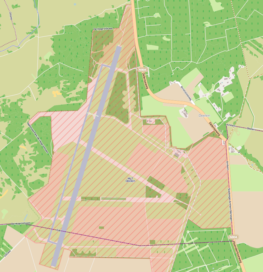 Open Street Map of the Deelen Air Base. This map may be incomplete, and may contain errors. Don't rely solely on it for navigation.